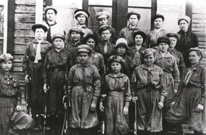 1918 Finnish Civil War: Pyhtää Female Red Guard.